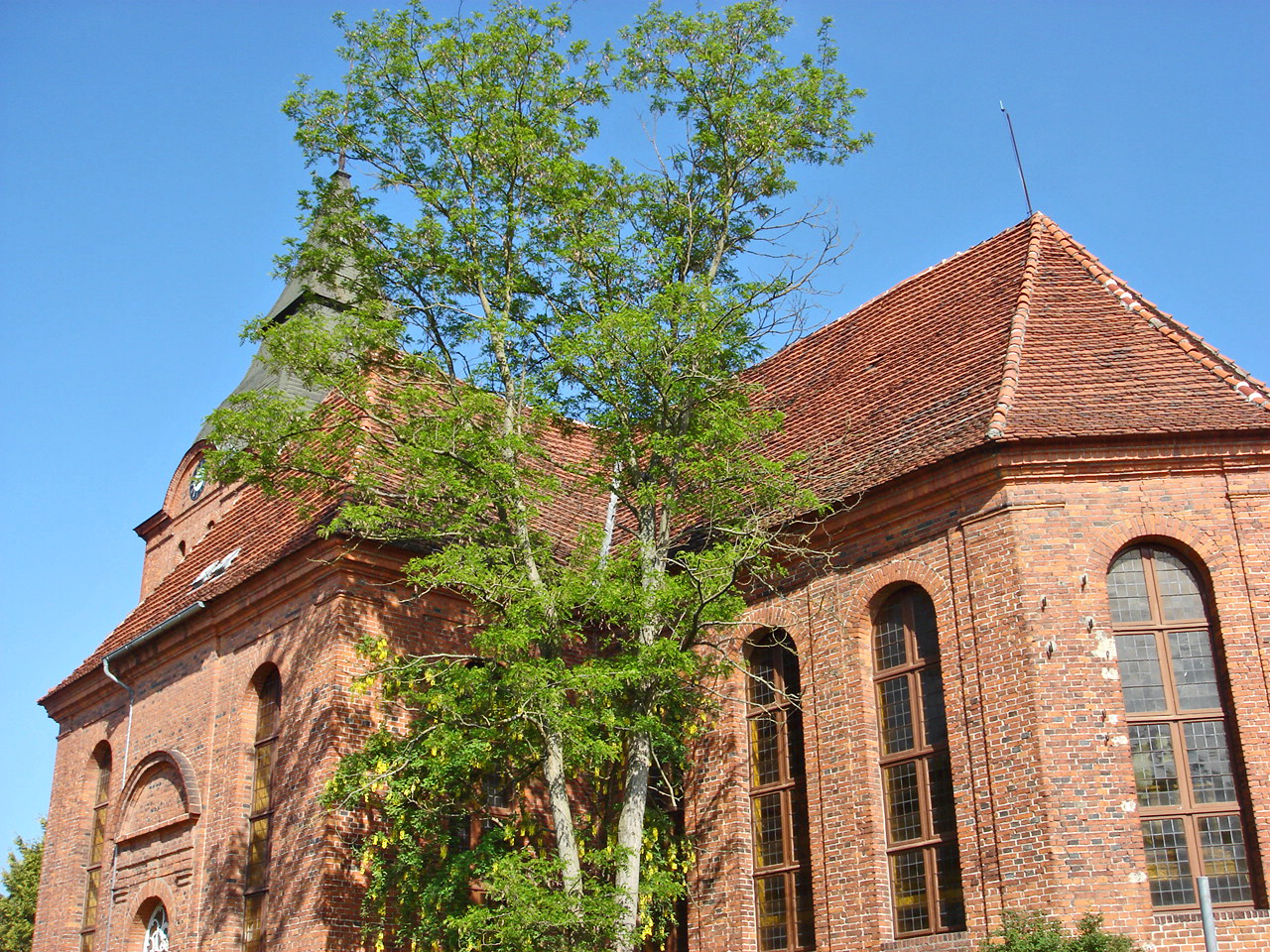 Town church of Stavenhagen in Mecklenburg-Vorpommern, Northern Germany. It was built with bricks in 1782 in late baroque style.